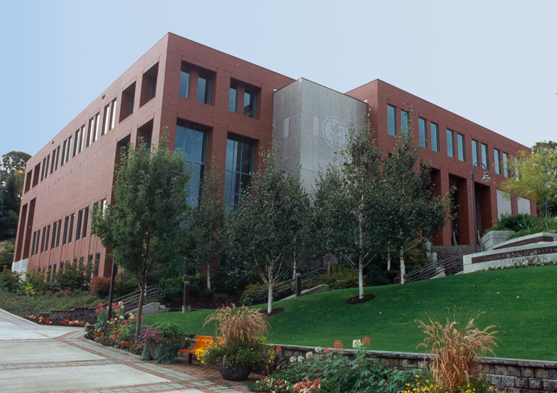 SPU Library